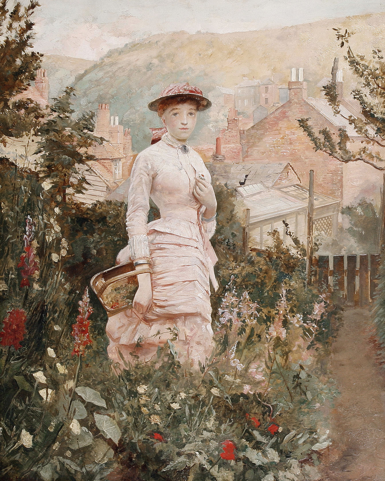 Ada Louise Stammers, the artist's wife oil on panel 39.5 x 31 cm signed 'R.P.Staples' (lower left)